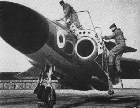 Two U.S. Marine Corps officers climbing out of a Gloster Javelin FAW.7 of No. 64 Squadron, Royal Air Force, at RAF Duxford, in 1959. The photo was taken, because two captains of the United States Marine Corps, B.M. Adrian and Dirk Bierhaalder, served as radar operators with 64 Squadron at RAF Duxford, Cambridgeshire (UK).